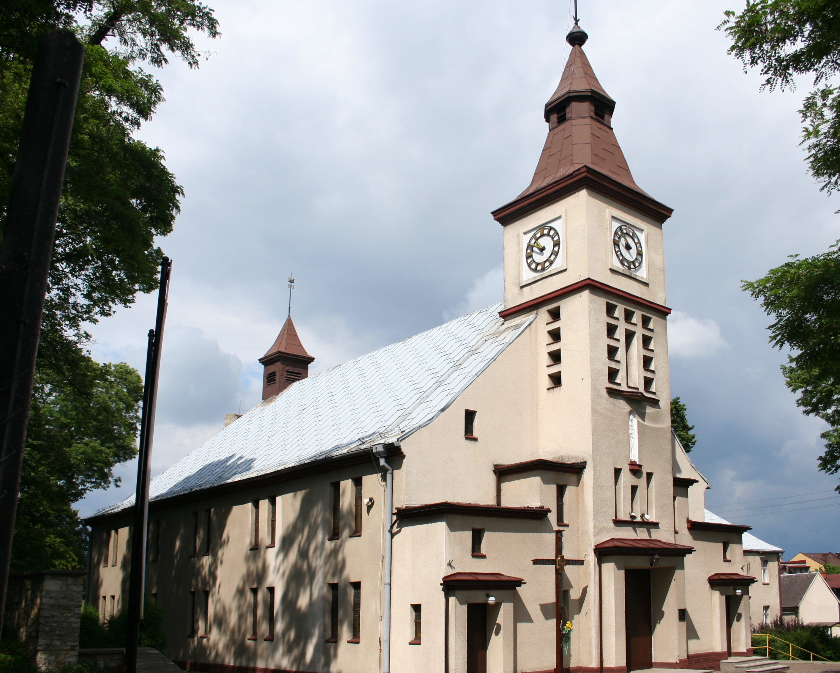 church of st. Mary in Piekary Śląskie (Poland)